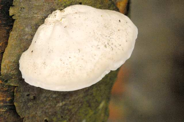 Tyromyces chioneus from Commanster, Belgian High Ardennes .